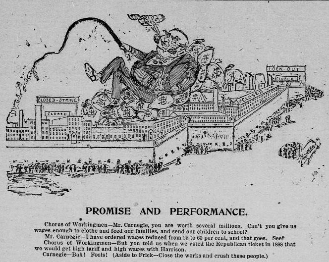 "Promise and Performance". Political cartoon of Andrew Carnegie sitting on bags of money during the Homestead Strike 1892. The caption reads: Chorus of Workingmen -- Mr. Carnegie, you are worth several millions. Can't you give us wages enough to clothe and feed our families, and send our children to school? Mr. Carnegie -- I have ordered wages reduced from 23 to 60 percent, and that goes. See? Chorus of Workingmen -- But you told us when we voted the Republican ticket in 1888 that we would get high tariff and high wages with Harrison. Mr. Carnegie -- Bah! Fools! (Aside to Frick -- Close the works and crush those people.)